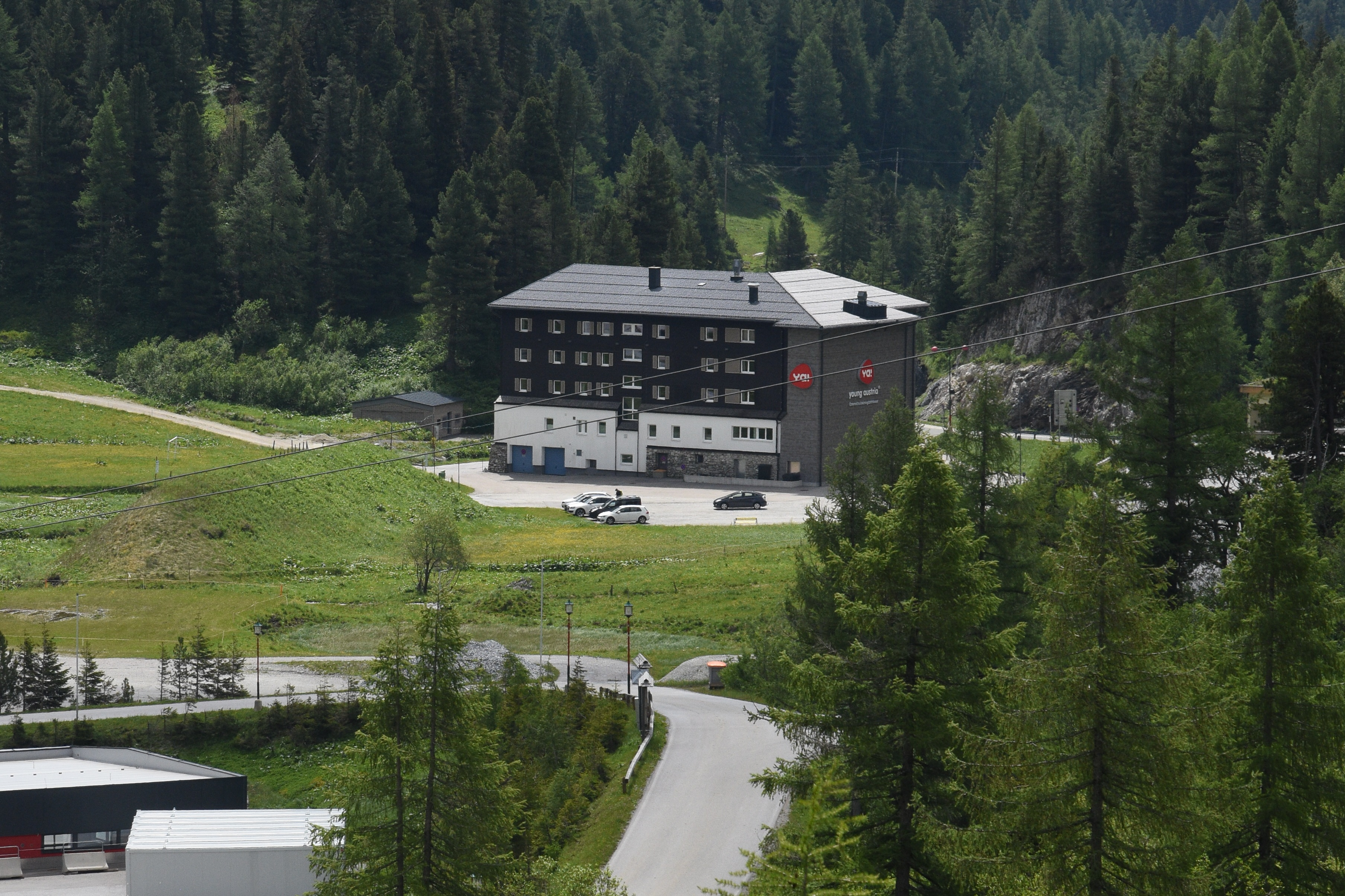 Tauernhaus Schaidberg